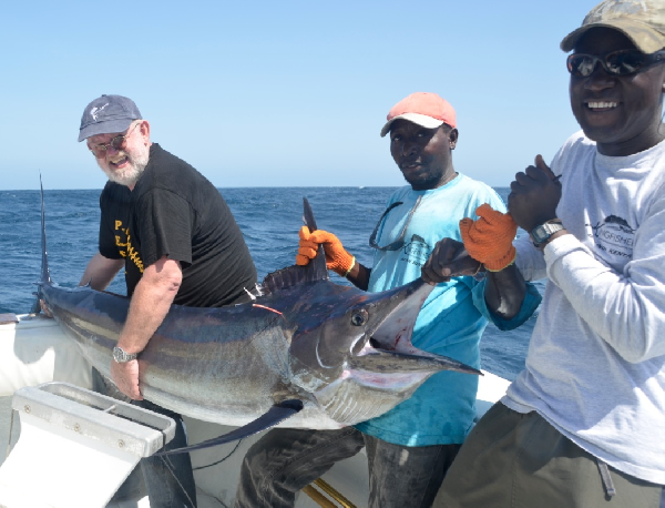 Istiompax indica (syn. Makaira indica) caught in Malindi, Kenya.